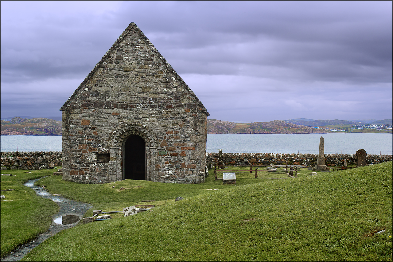 Photo of St Oran's Chapel.